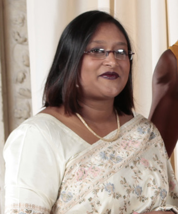 President Barack Obama and First Lady Michelle Obama pose for a photo during a reception at the Metropolitan Museum in New York with Sheikh Hasina, Prime Minister of Bangladesh, and her daughter, Saima Hossain (far left).